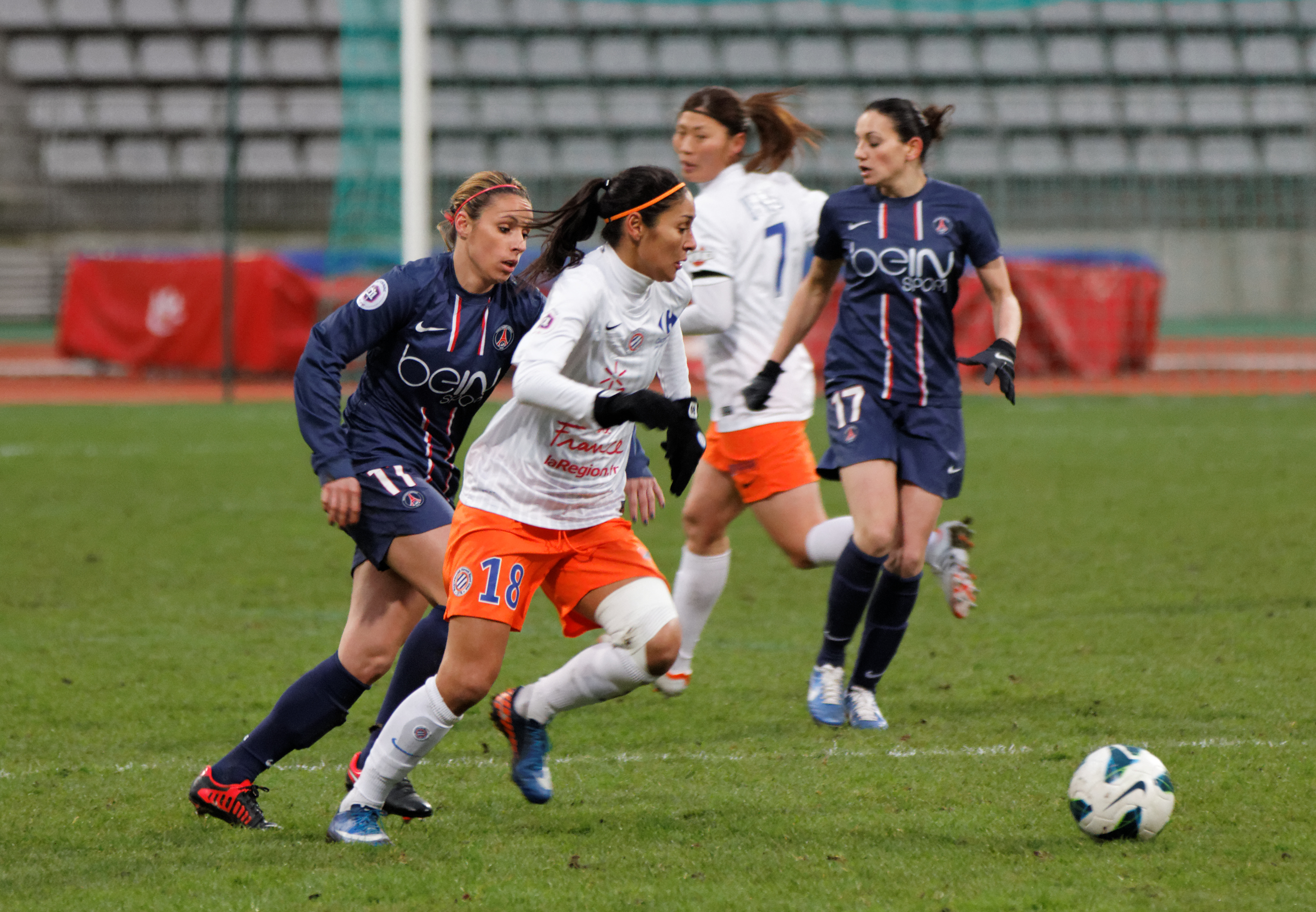 PSG-Montpellier, January 13th, 2013. Hoda Lattaf (Montpellier) and Jessica Houara (PSG).